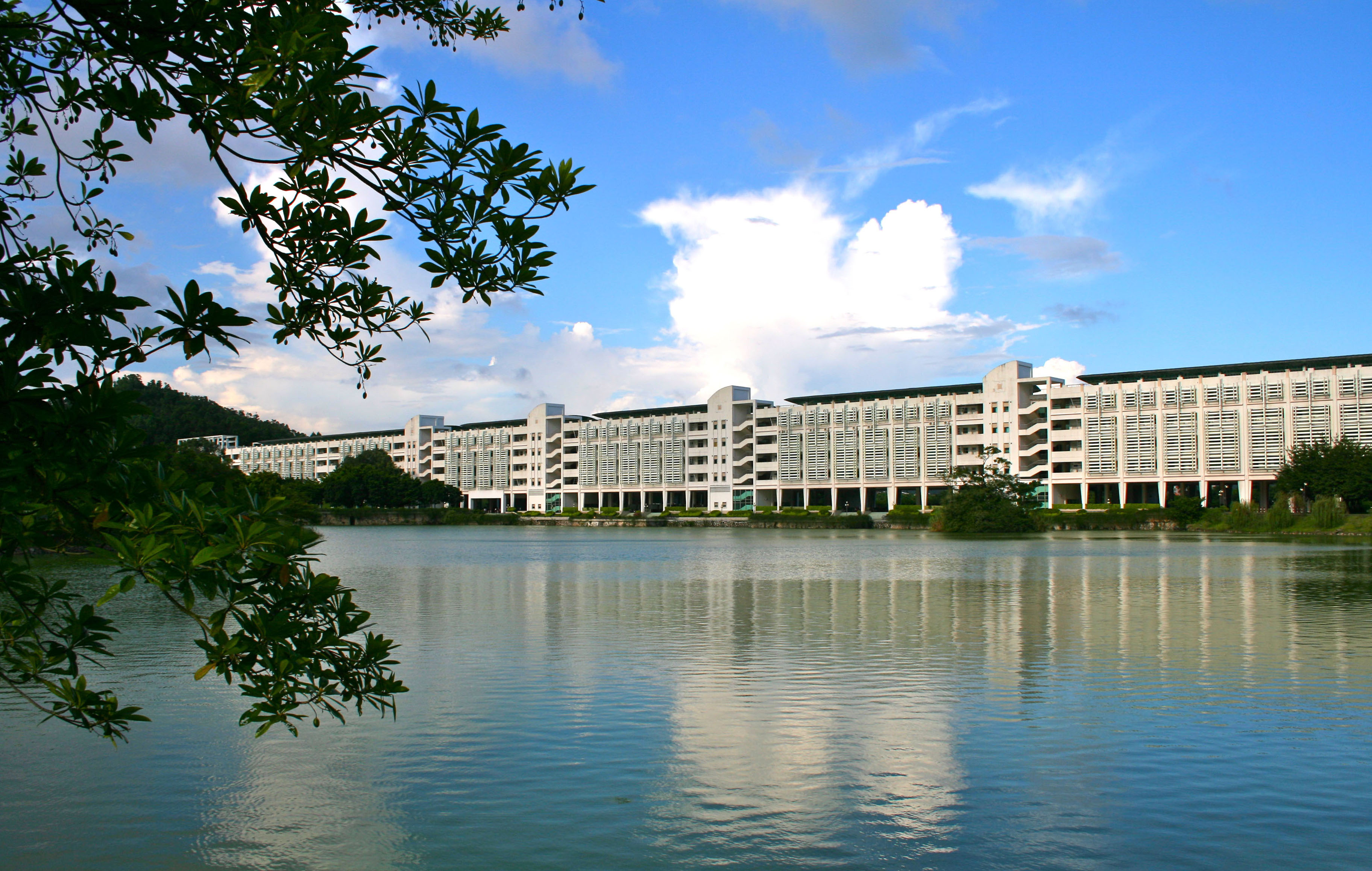 The main building of Sun Yat-sen University (Zhuhai campus)